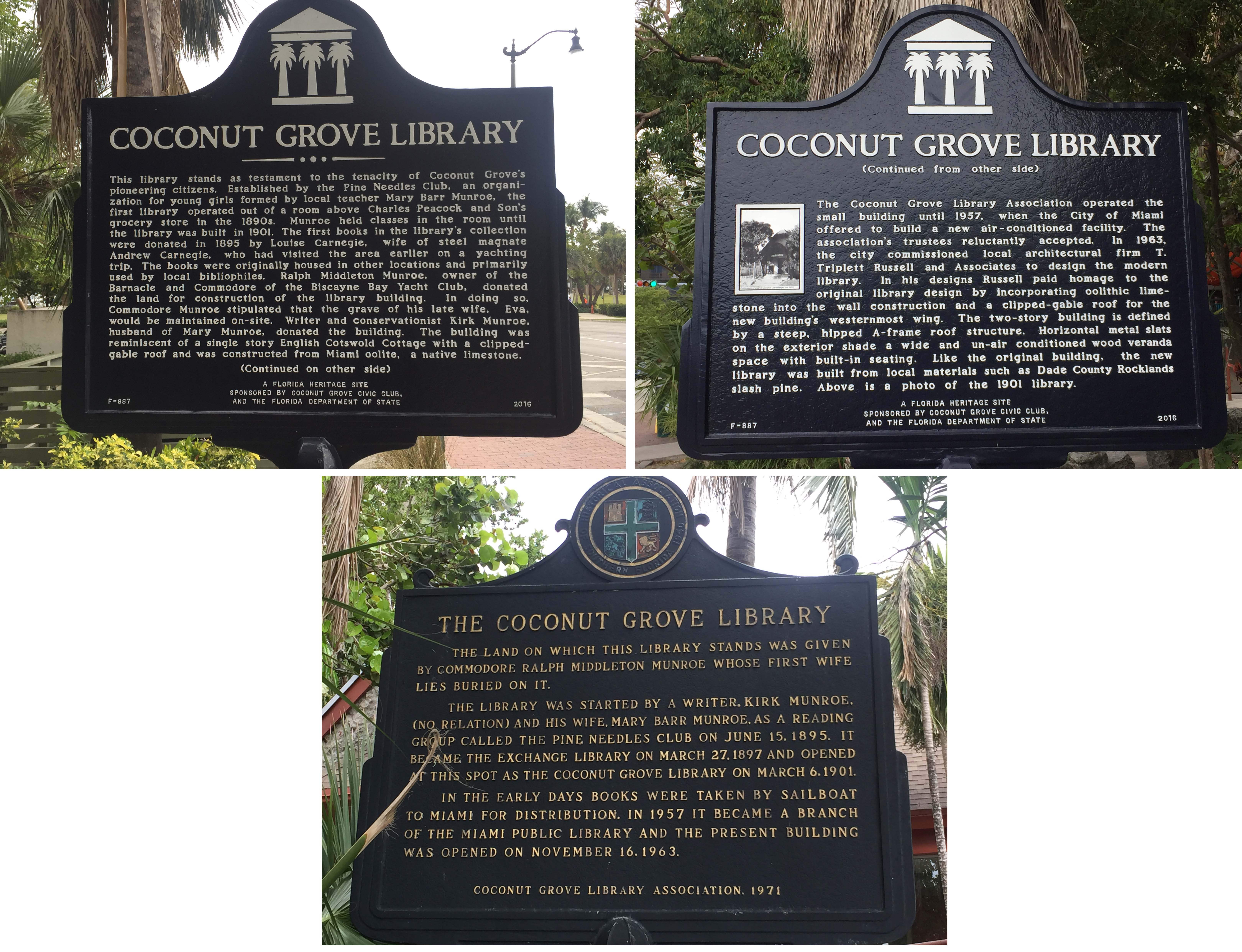 A collection of the various Coconut Grove Library Plaques found around the library site.